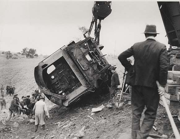 Derailment near Rocky Ponds - hoisting engine to upright position Dated: 30/06/1948 Digital ID: 17420_a014_a014000944 Rights: We'd love to hear from you if you use our photos. Many other photos in our collection are available to view and browse on our website using Photo Investigator.